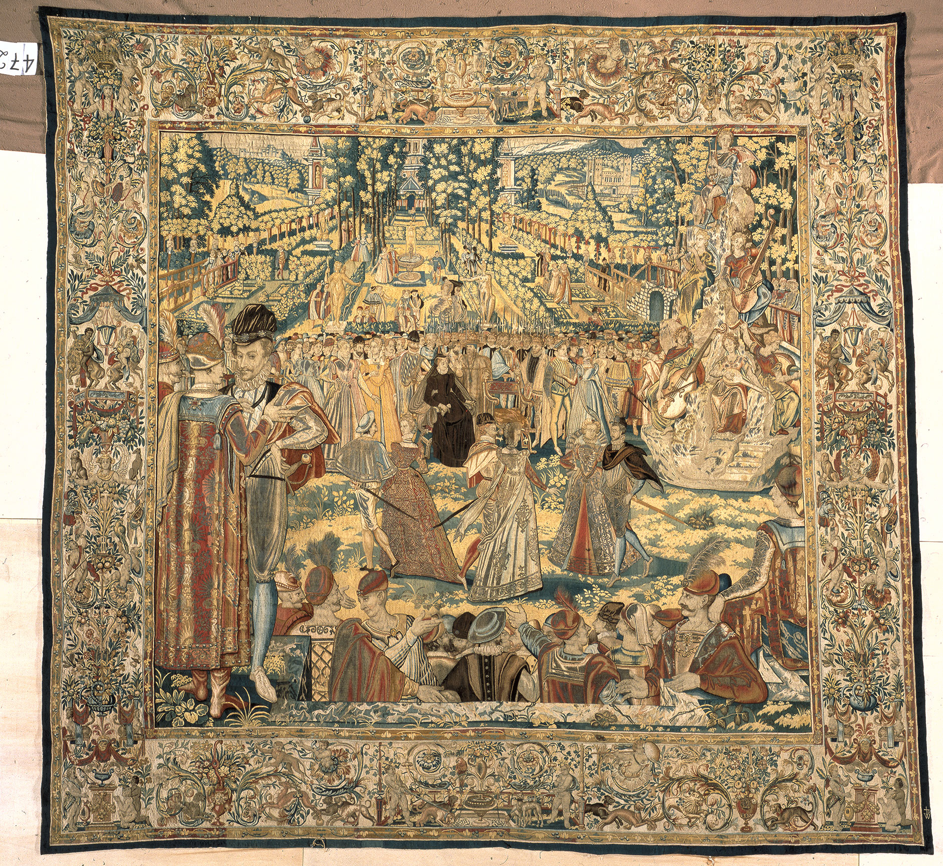 Polish Ambassadors, from the Valois Tapestries